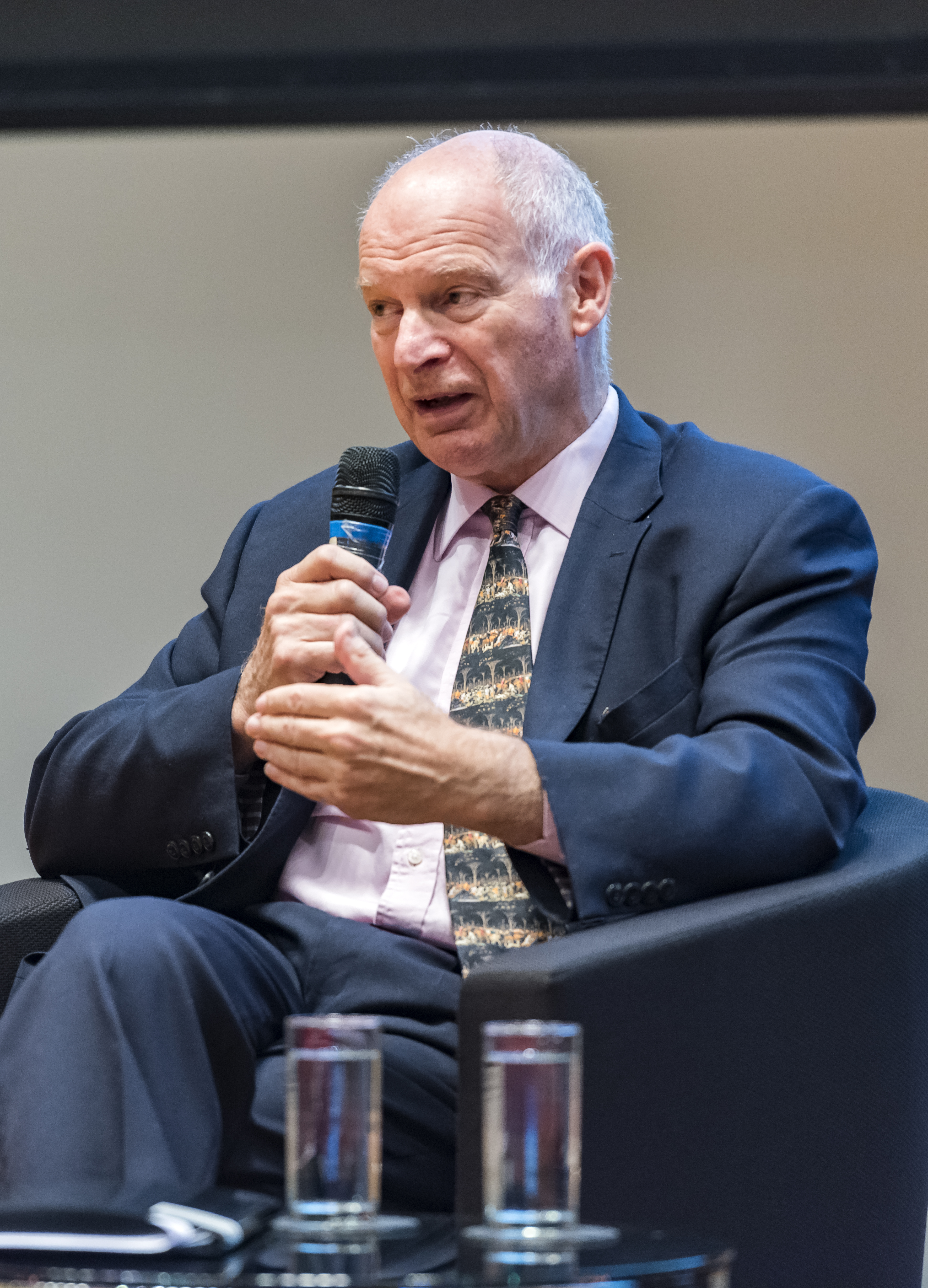 David Neuberger, Baron Neuberger of Abbotsbury 2016